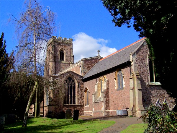 SS Mary and John parish church, Rothley, Leicestershire, seen from the southeast